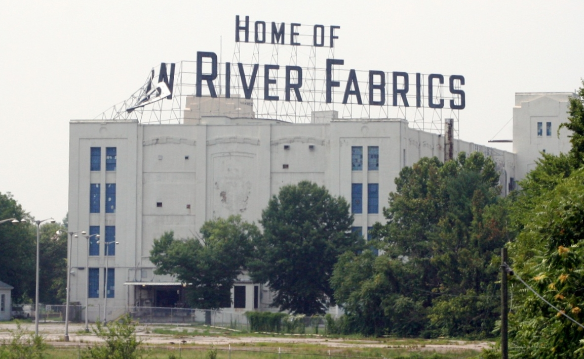 Dan River Inc. textile mill (now closed) in Danville, Virginia.